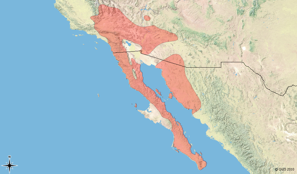 Range of Charina trivirgata (Lichanura trivirgata) - Rosy Boa